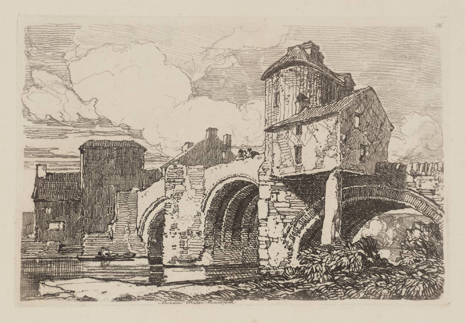 Monnow Bridge, Monmouthshire; etching on paper, part of "Liber Studiorum: A Series of Sketches and Studies" Purchased as part of the Oppé Collection with assistance from the National Lottery through the Heritage Lottery Fund 1996